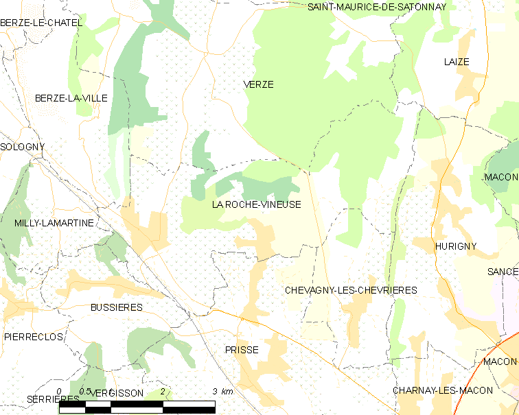 Map of French municipality